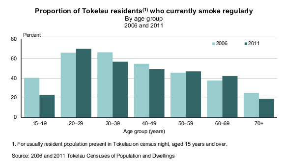 Proportion of Tokelau residents who smoke regularly, using data from the 2006 Tokelau Census and the 2011 Tokelau Census.